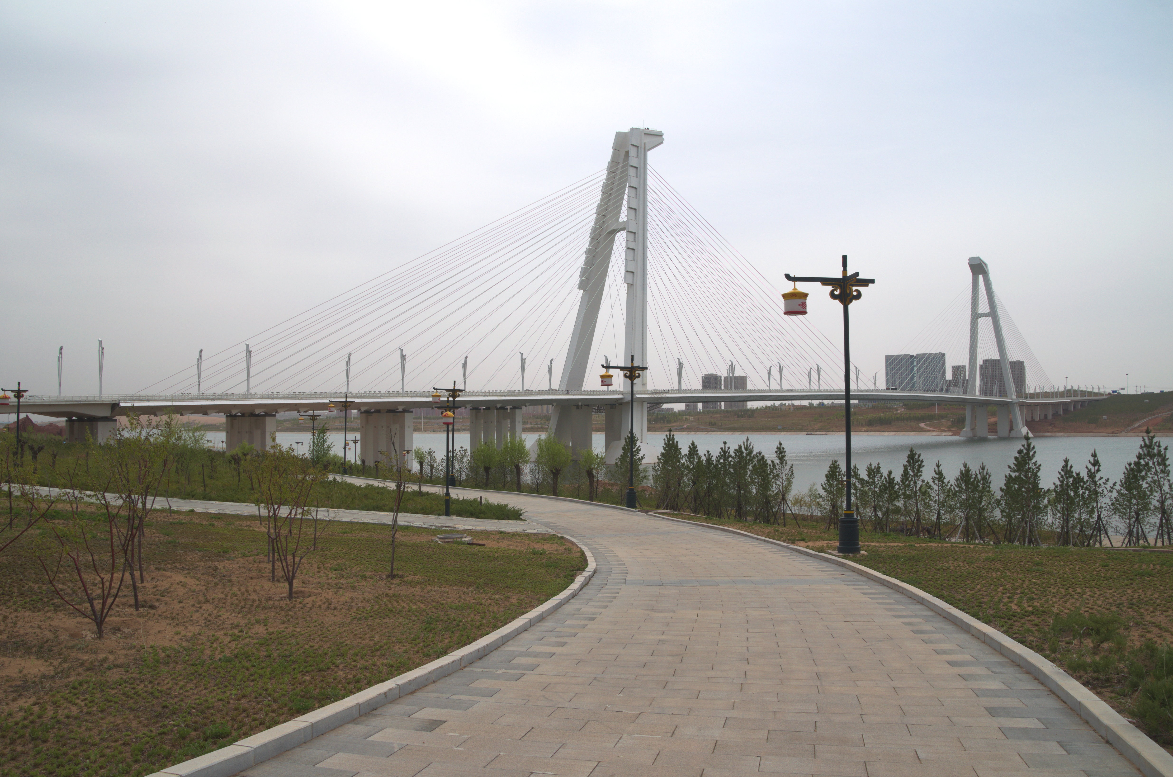 Kang Bashi Great Bridge (康巴什大桥), in the new district of Kang Bashi at Ordos, Inner Mongolia, China.